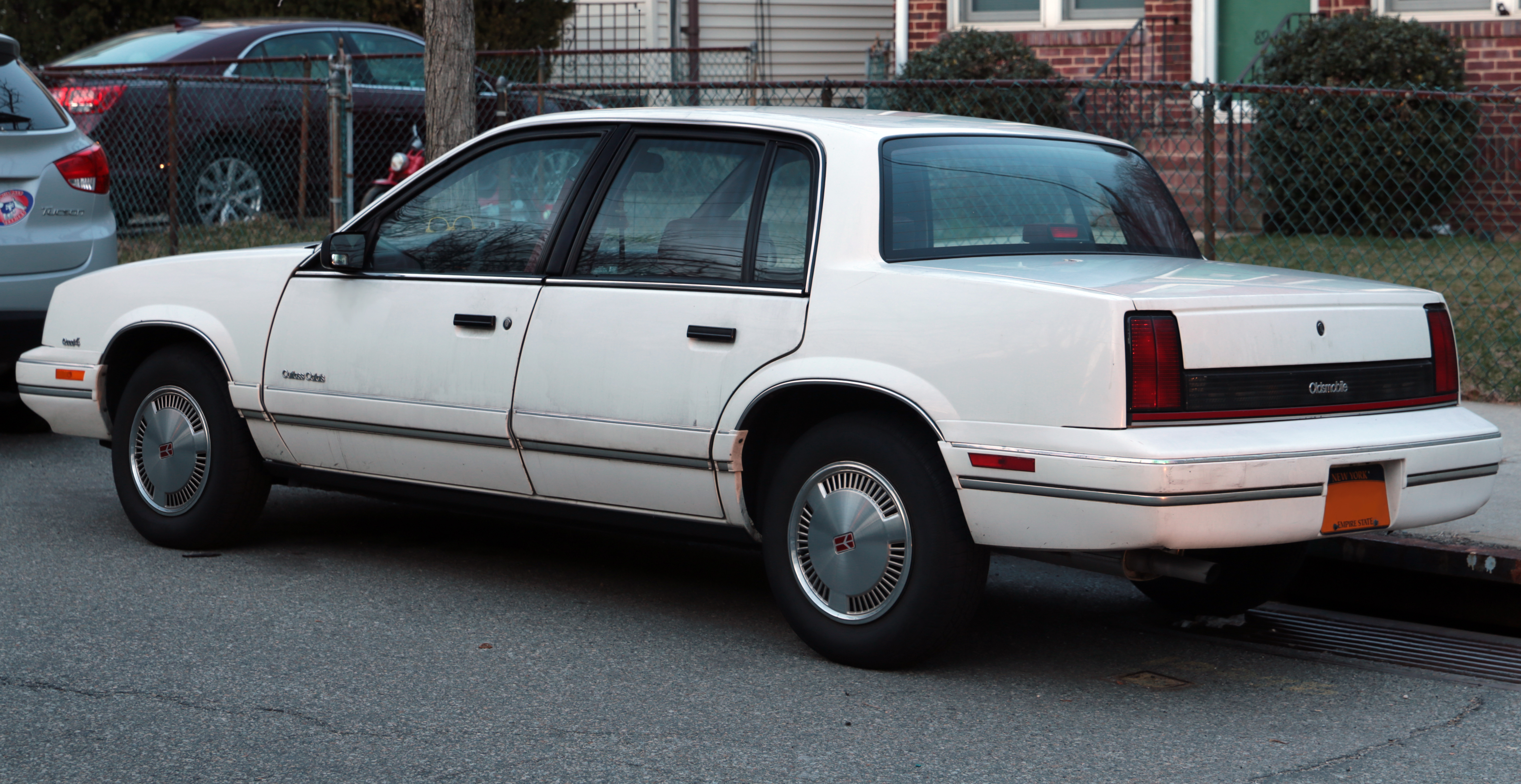 A 1991 Oldsmobile Cutlass Calais four-door sedan (base model) with the LD2 Quad 4 engine, 160hp.